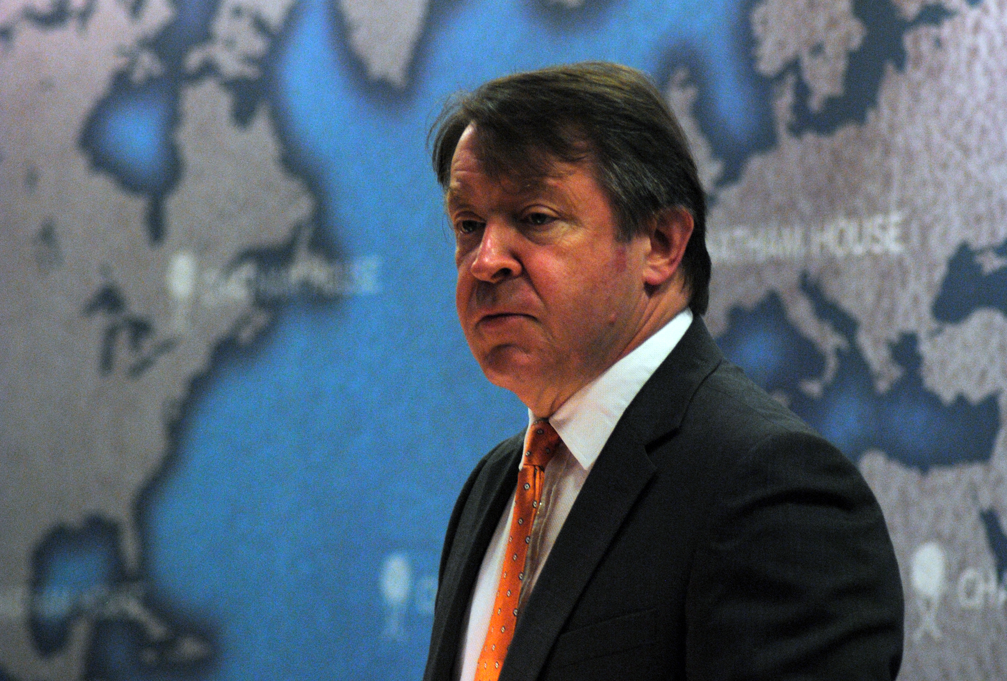 Opportunities for Financial Services in Nigeria, Angola and Ghana, 18 June 2013 cht.hm/1aocHdd